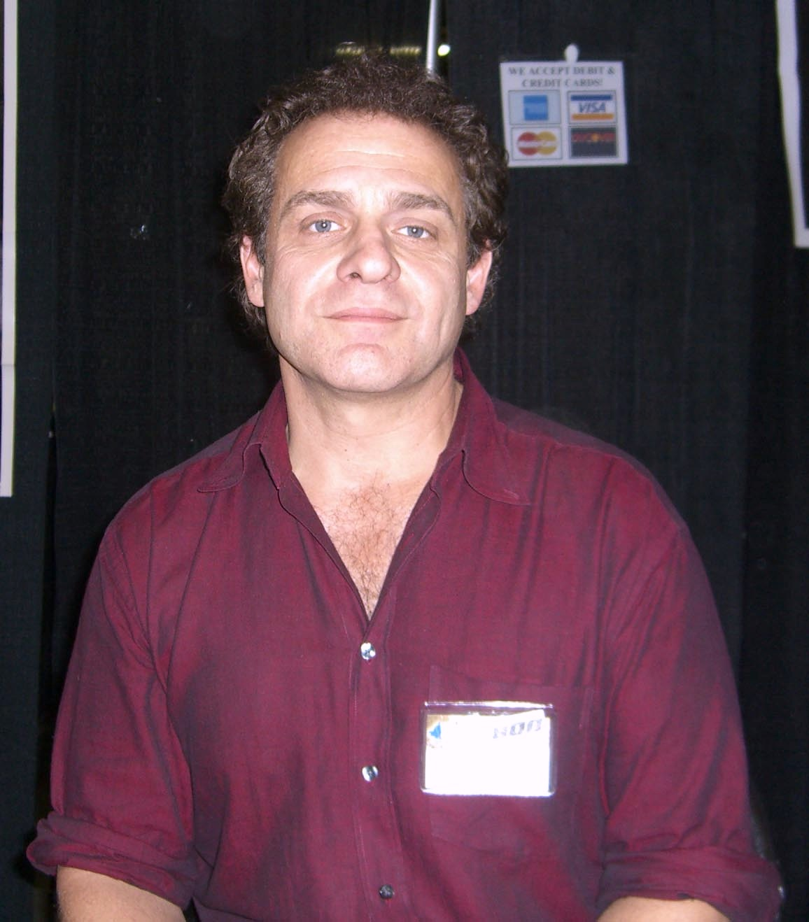 Actor Daniel Kash at the Big Apple Convention in Manhattan. Photographed by Luigi Novi. This photo may only be used if the photographer is properly credited. (See Licensing information below.)